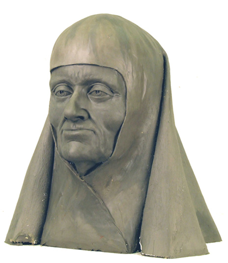 1st mother-in-law of Ivan IV, mother of Anastasia Romanova, a nun with name Anastasia, civil name unknown, Forensic facial reconstruction by S.A.Nikitin.